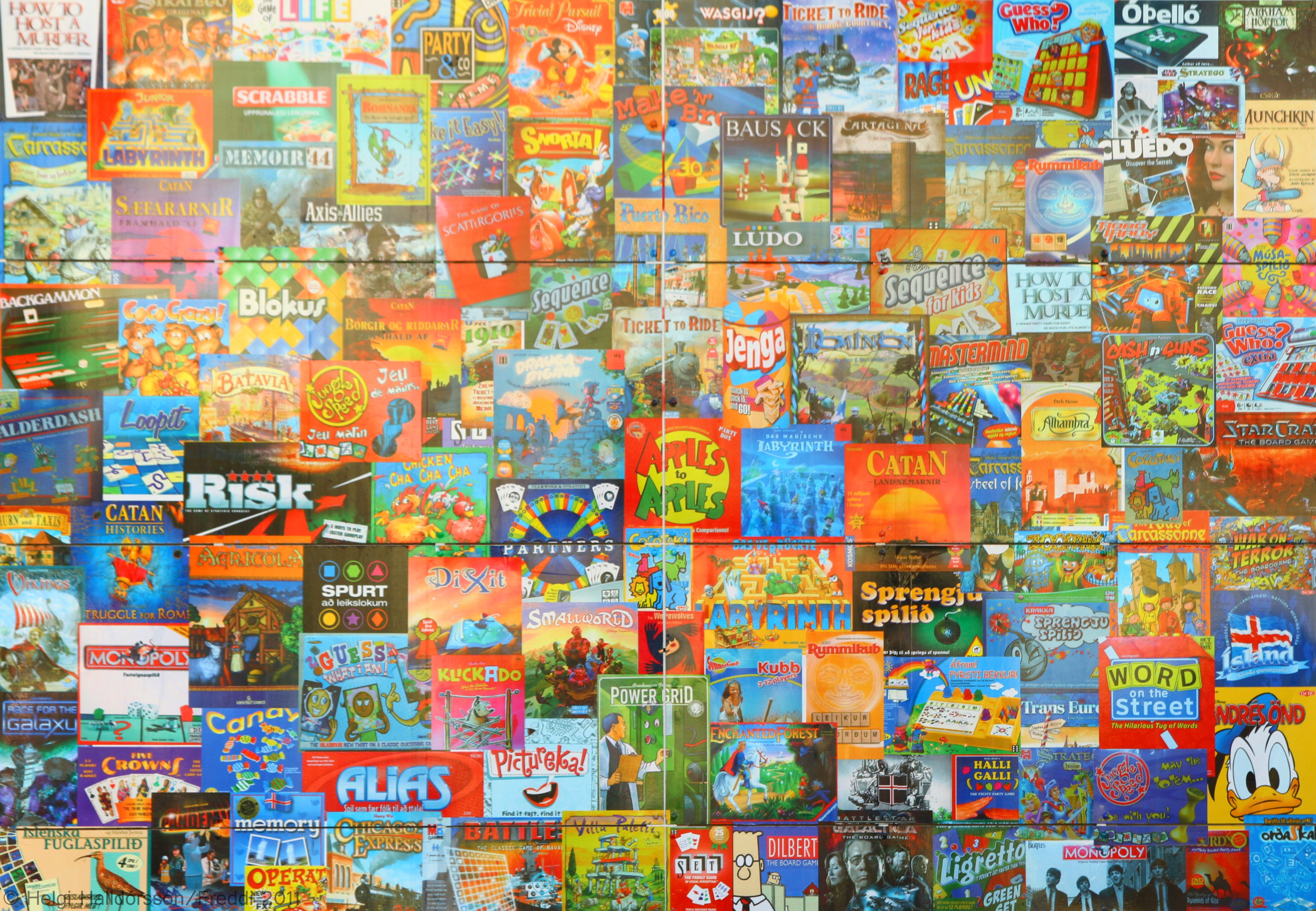 Spilavinir (Friends play) is a store located at Langholtsvegur 126 that specializes in games and puzzle games for the whole family. Friends play is not a big store, but if one fits best selection of games and puzzle games in the country! Play with friends, you can look in the box and even tried playing before you buy them!